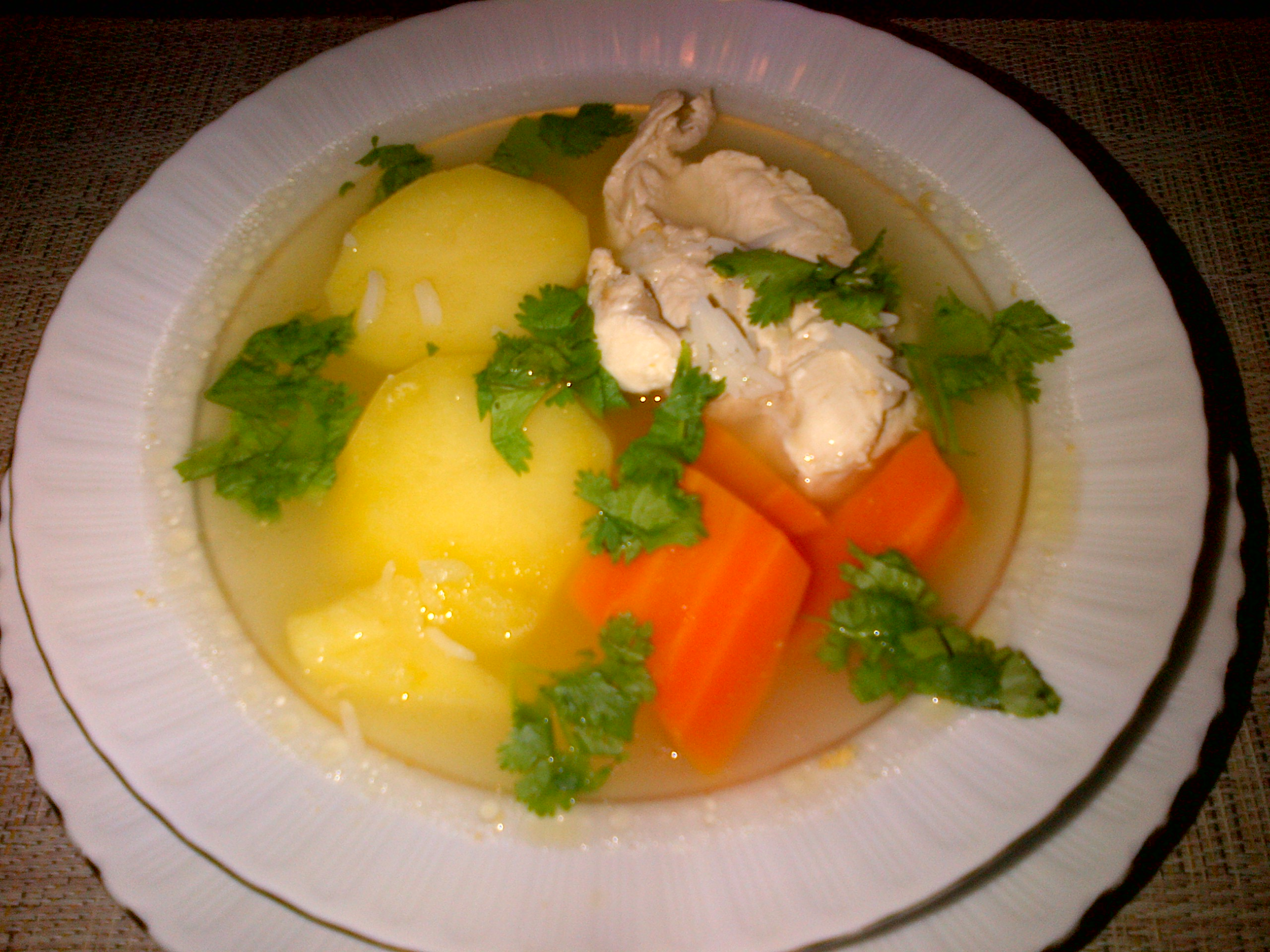 Chicken soup in Ankara.